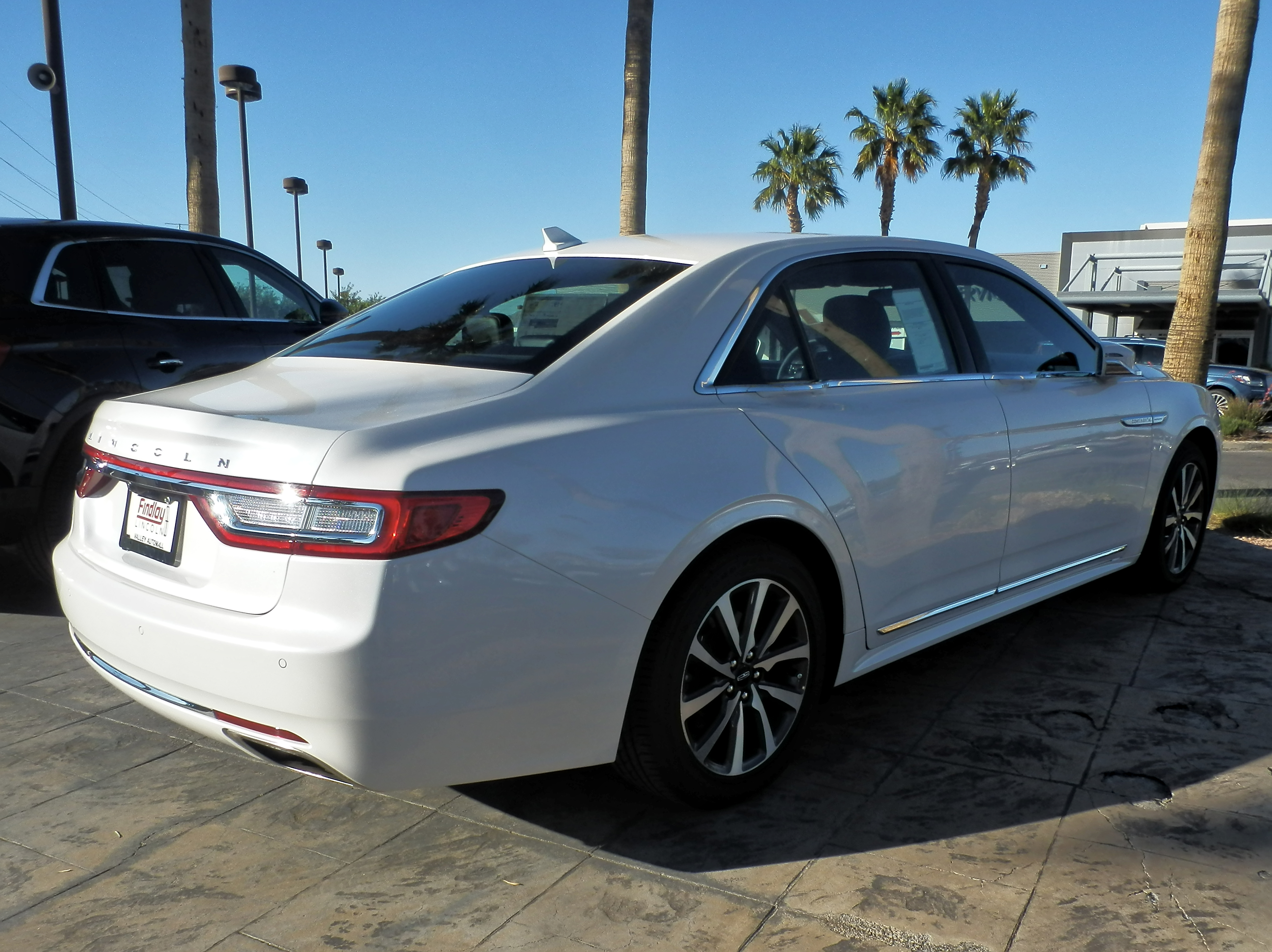 Lincoln Continental in Las Vegas